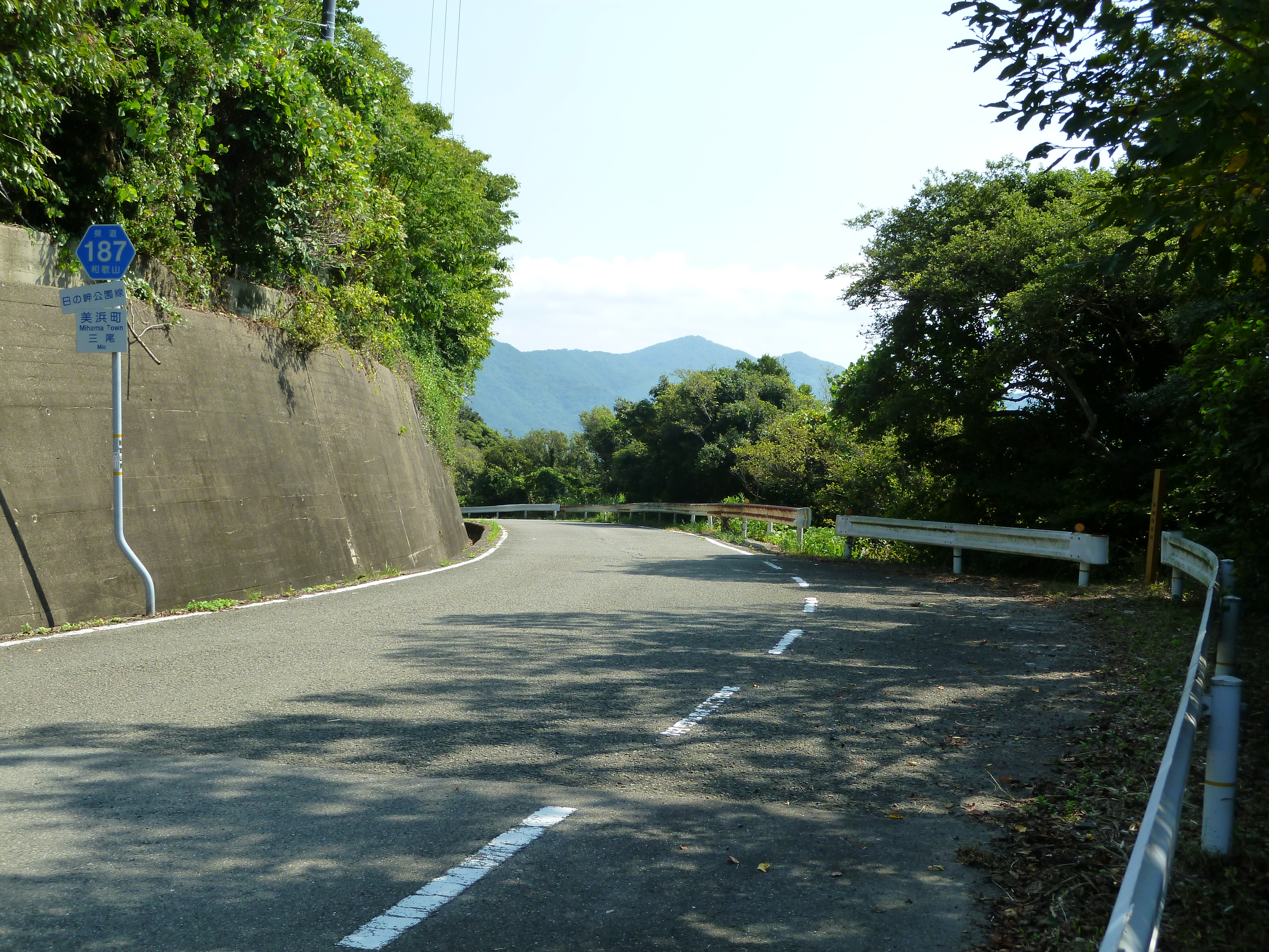 The Wakayama Prefectural Road Route 187 in Mio, Mihama Town